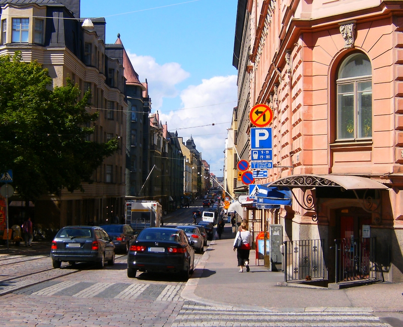 Fredrikinkatu, Helsinki, Finland, a view to north-west